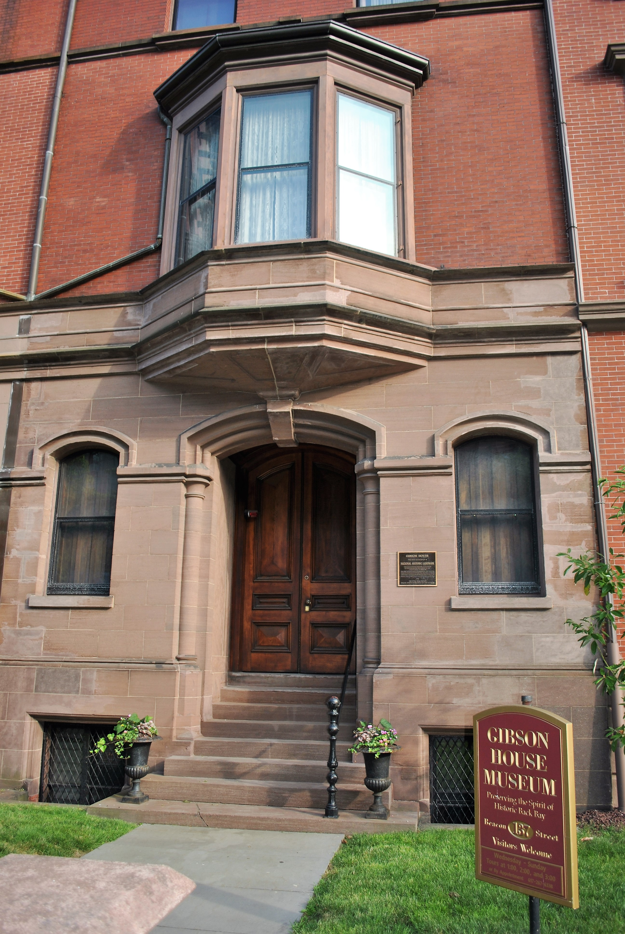 Image originally published in Queer Places: Retracing the Steps of LGBTQ people around the World Authored by Elisa Rolle